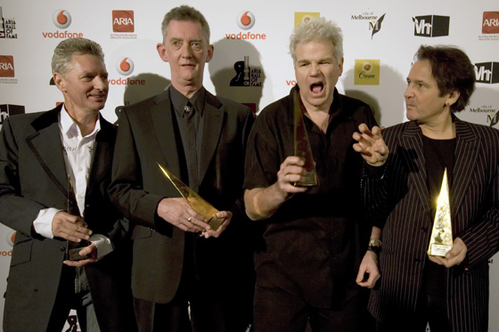 Dragon at the ARIA Hall of Fame Melbourne Town Hall, July 1st 2008